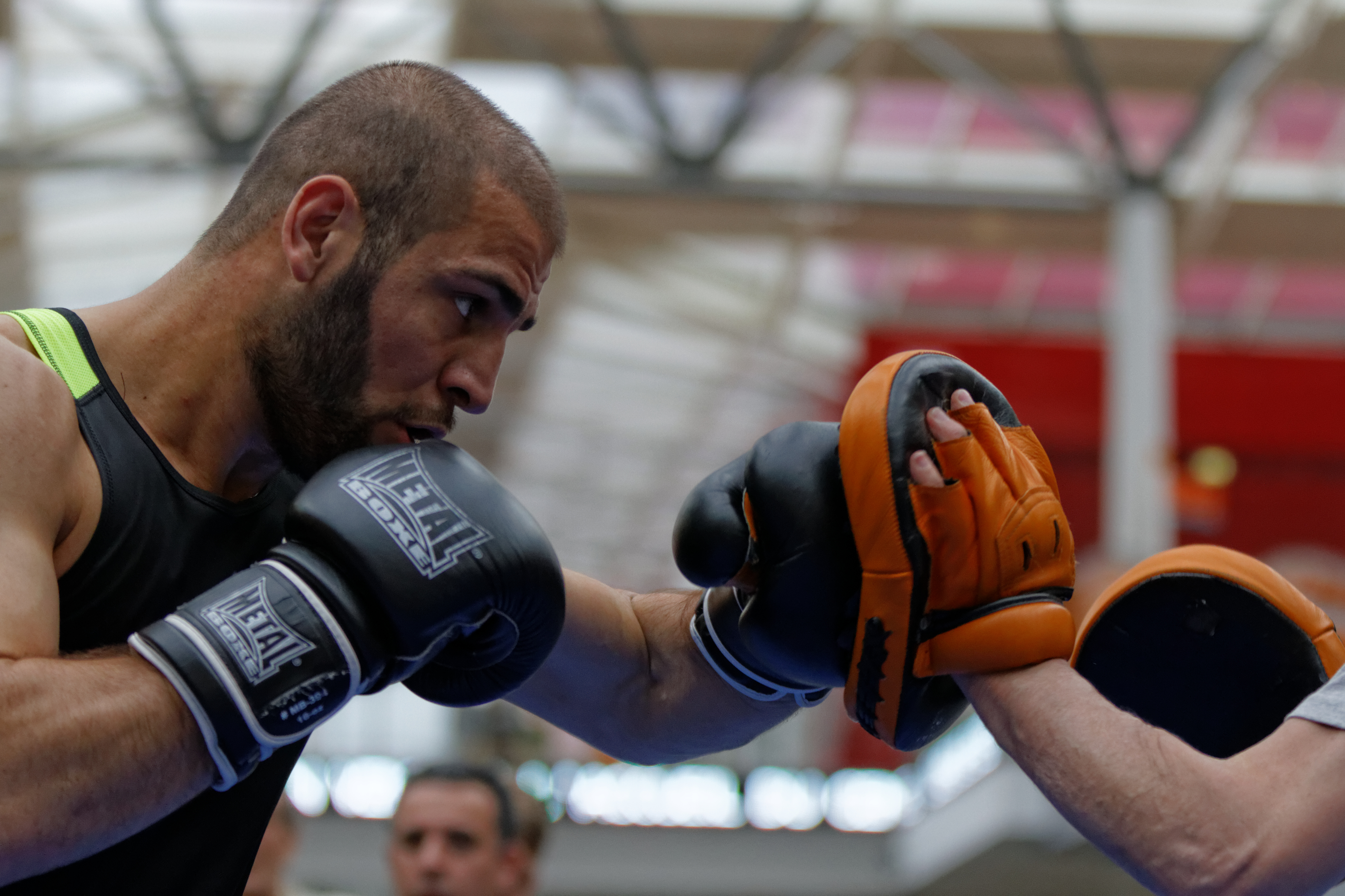 Boxer Engin Karakaplan during a public training session (Le Milléaire, Aubervilliers, France).